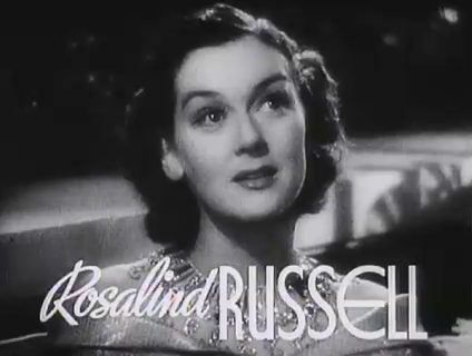 Rosalind Russell in the trailer for the American film Man-Proof (1938).